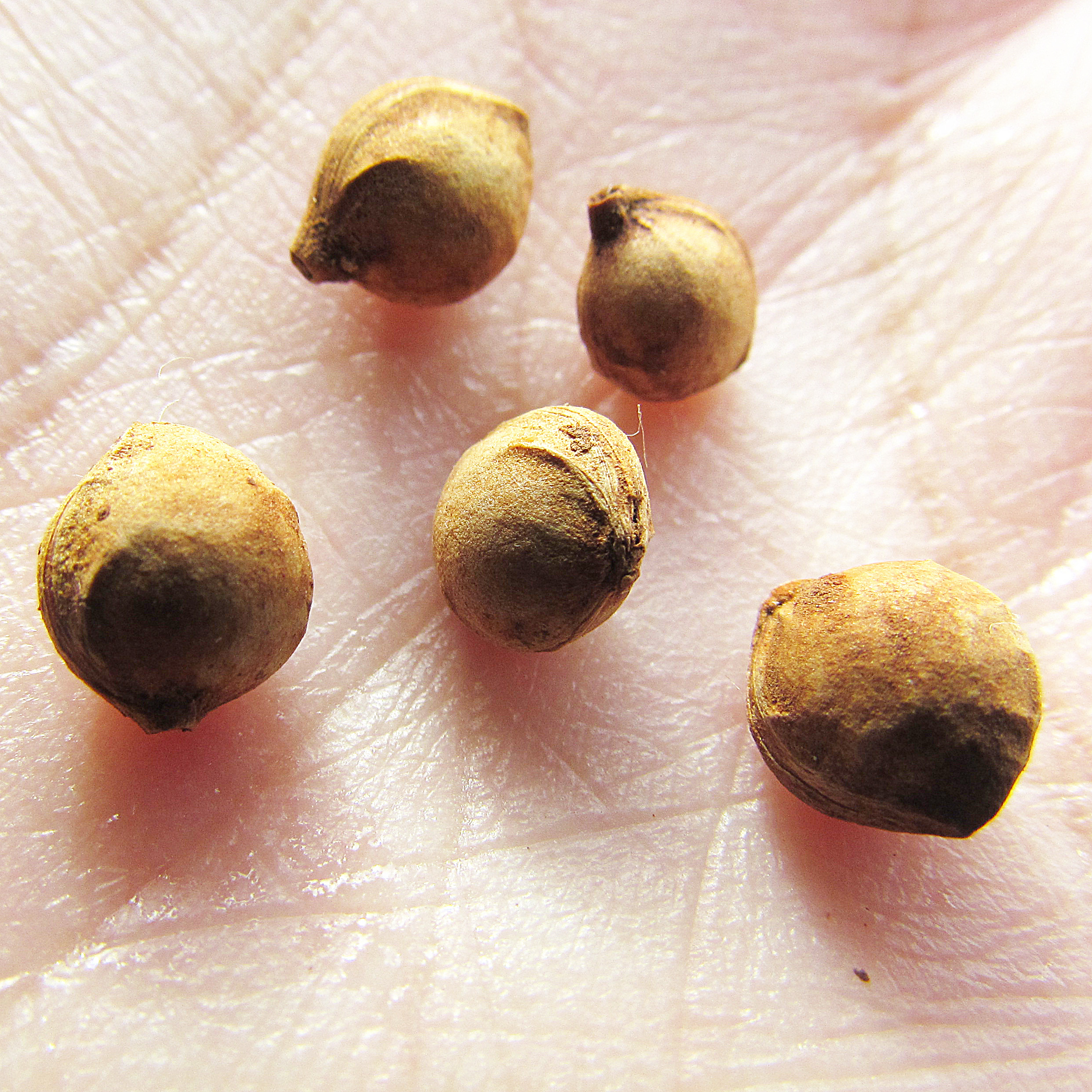 Prunus serotina stones